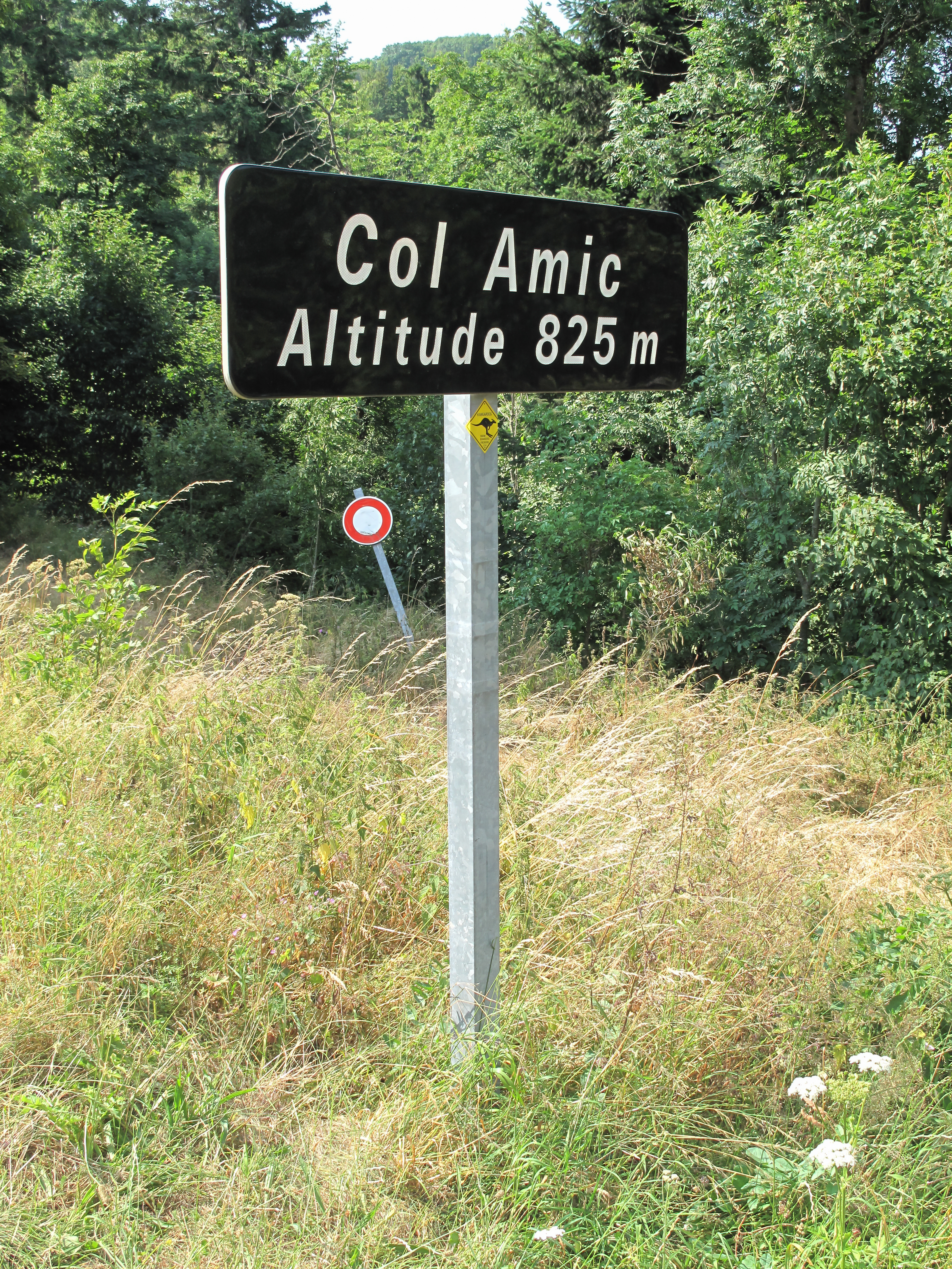 Col Amic, name sign